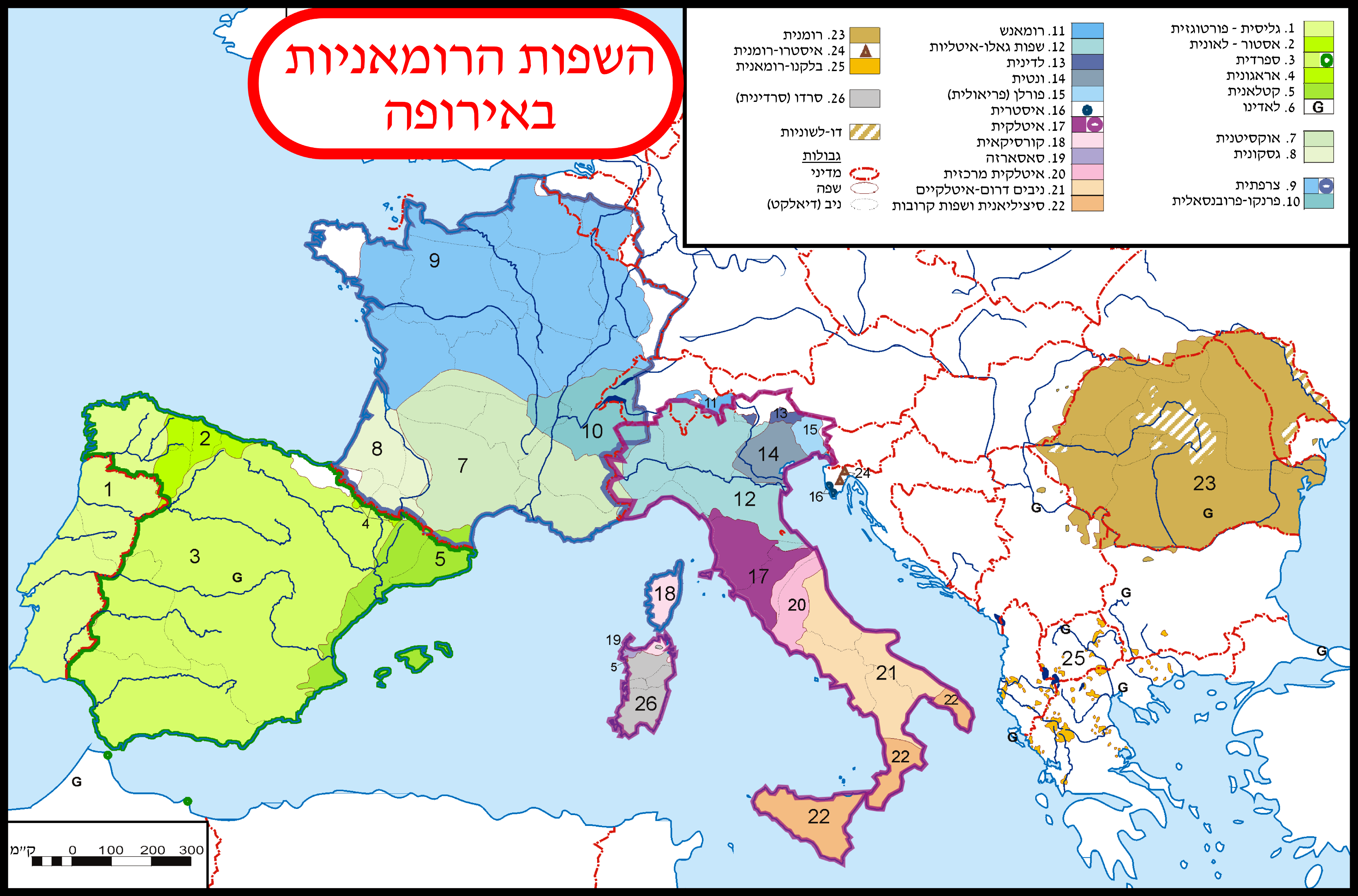 Romance languages in Europe in 20 c. AD. English version. For a Russian one see Image:Romance_20c_ru.png.